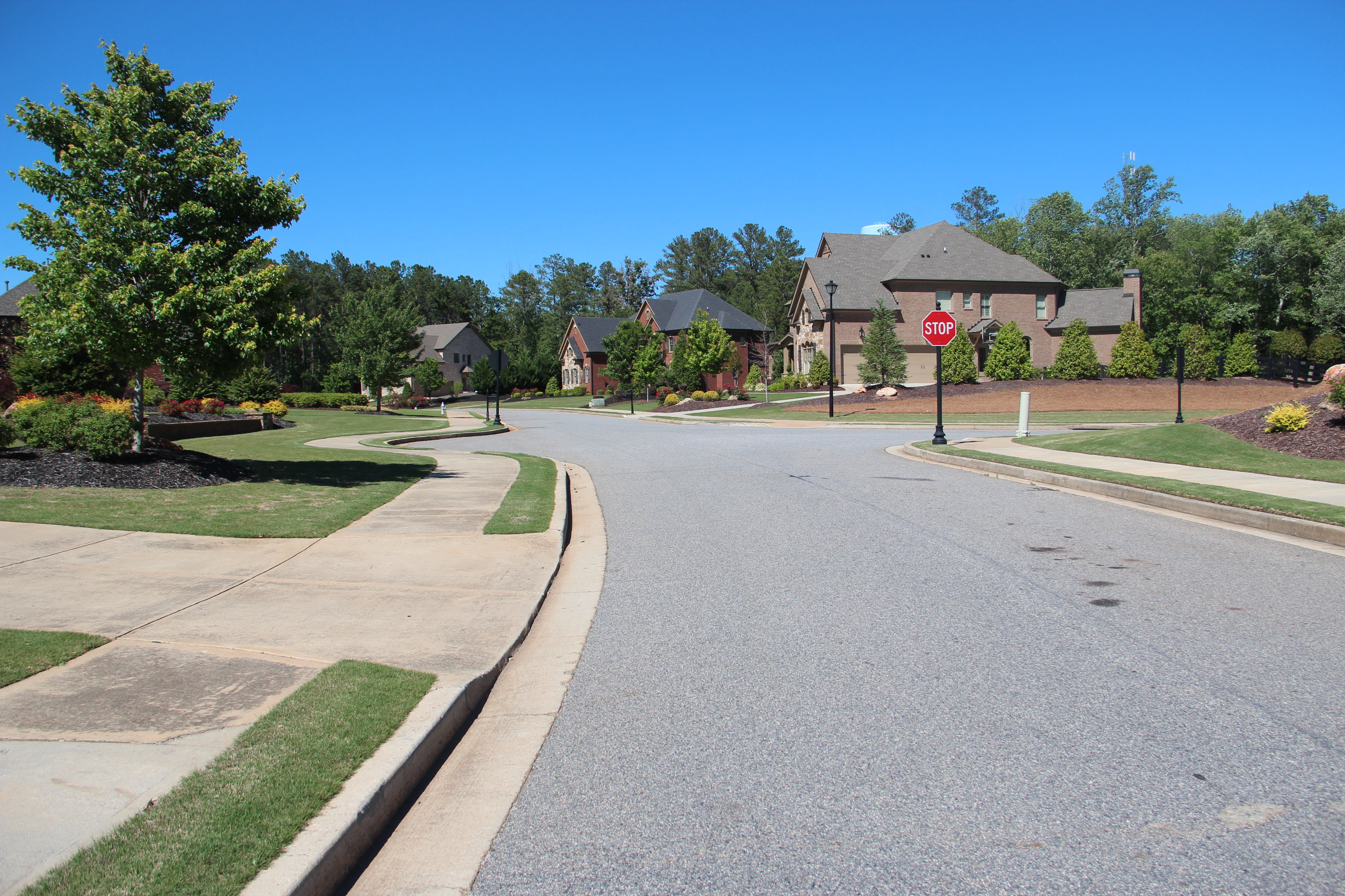 Quayside Drive, Milton, GA